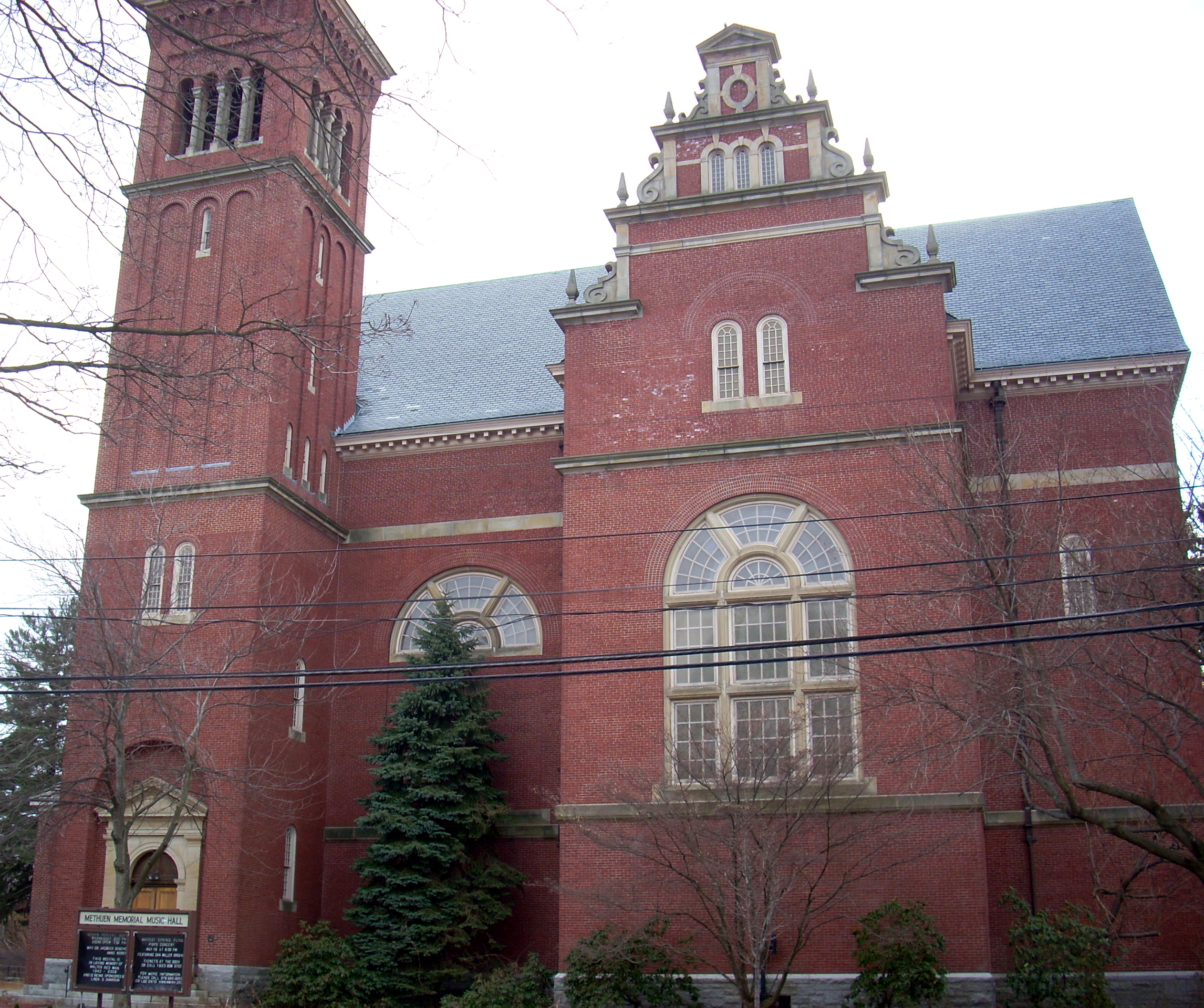 Methuen Memorial Music Hall, 192 Broadway, Methuen, Massachusetts